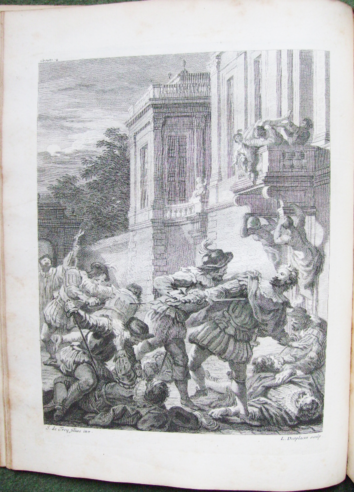 La Henriade de Voltaire à Londres en 1728